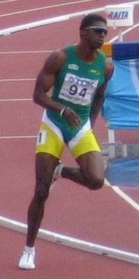 A 200 metres run at the 2005 Athletics World Championships in Helsinki. qualifications - heat 1 (-2.5m/s): 1 lan- 094 Domingos André BRA 21.44